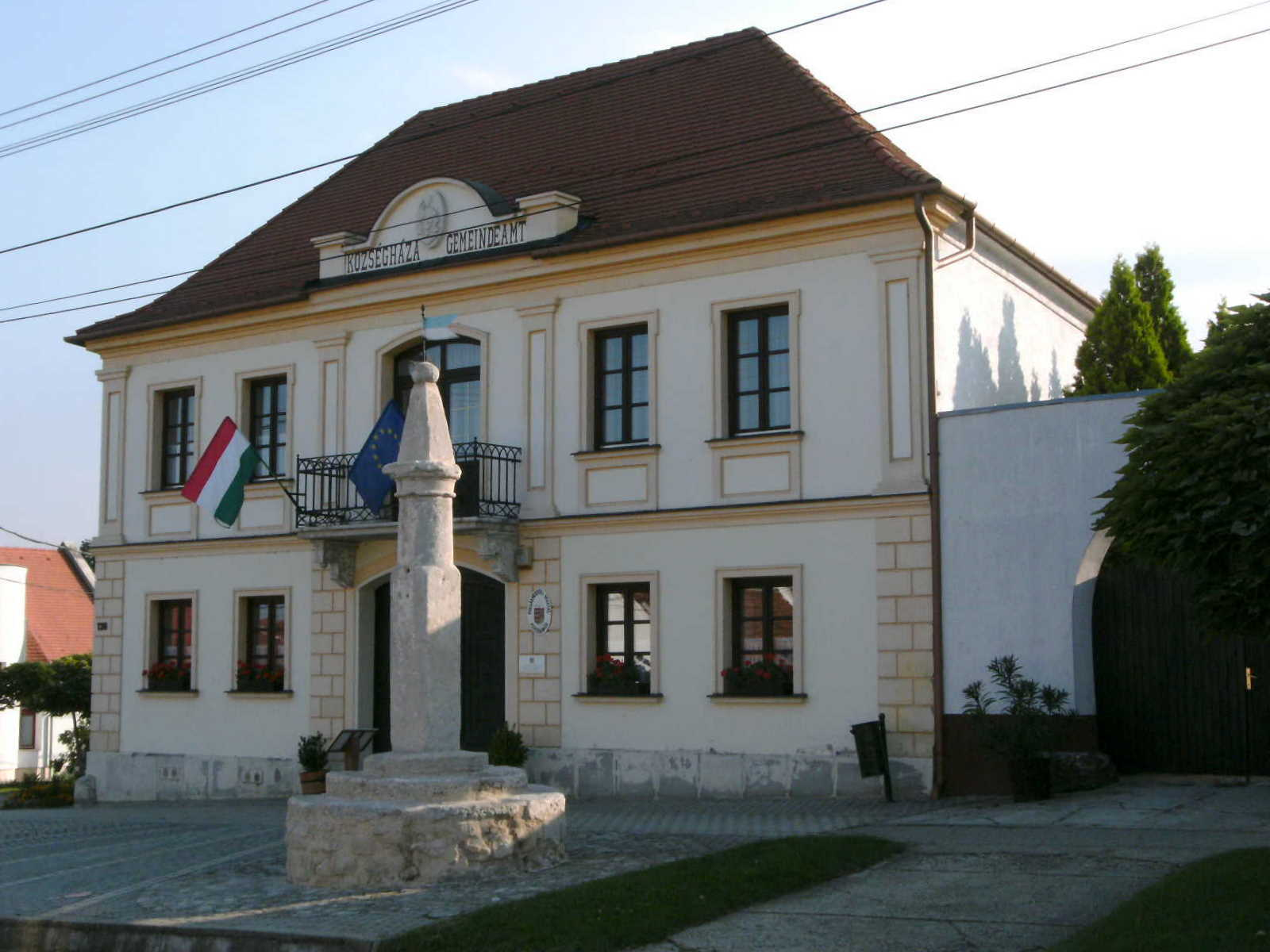 Municipal office of Fertőrákos and listed pillory, Győr-Moson-Sopron county, Hungary